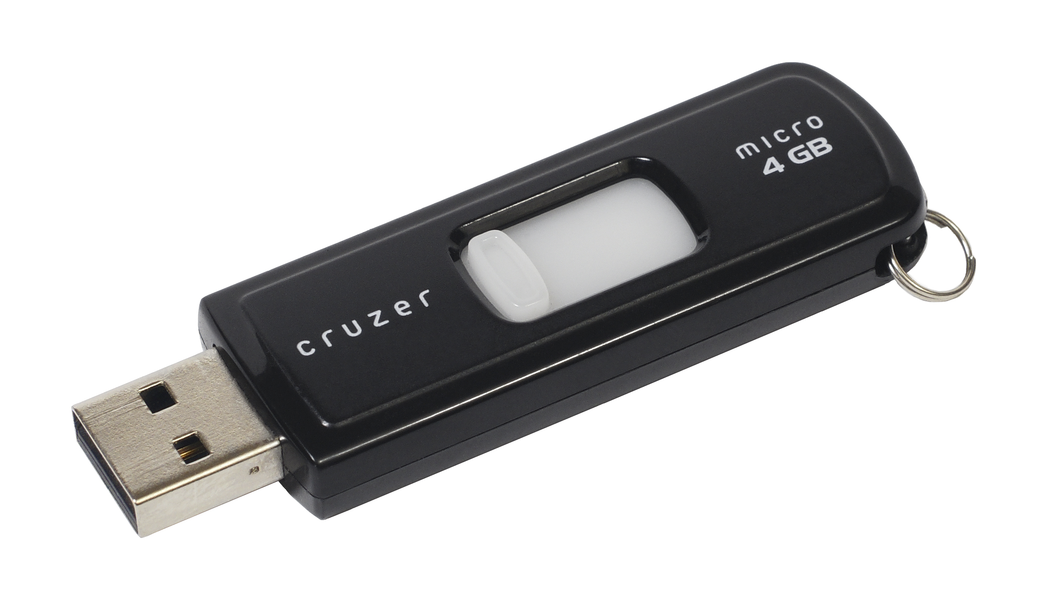 A SanDisk-brand USB thumb drive, SanDisk Cruzer Micro, 4GB.